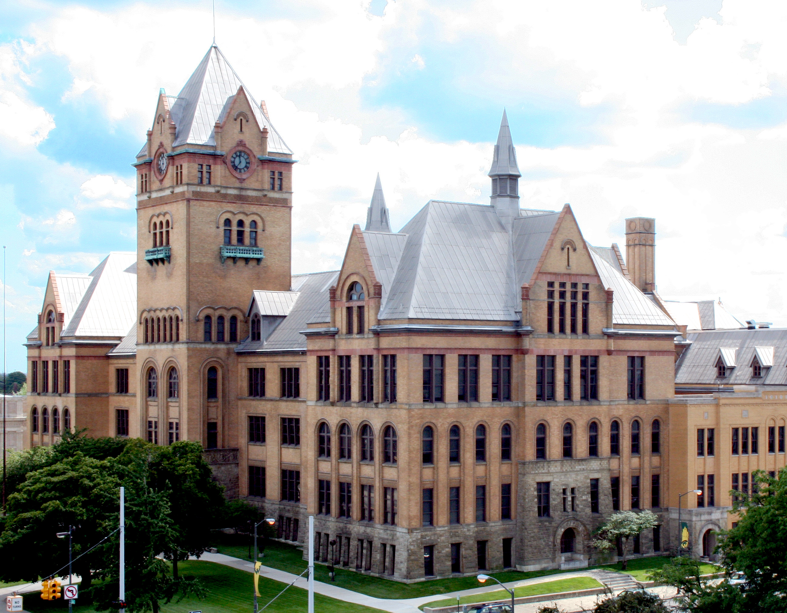 Wayne State University's Old Main seen from the top floor of Parking Structure 6 on a partly cloudy day. I took this picture with a Digital Rebel XT. In Adobe Photoshop I did a few automatic adjustments to the overall image and then worked on the sky and the rest of the image separately.